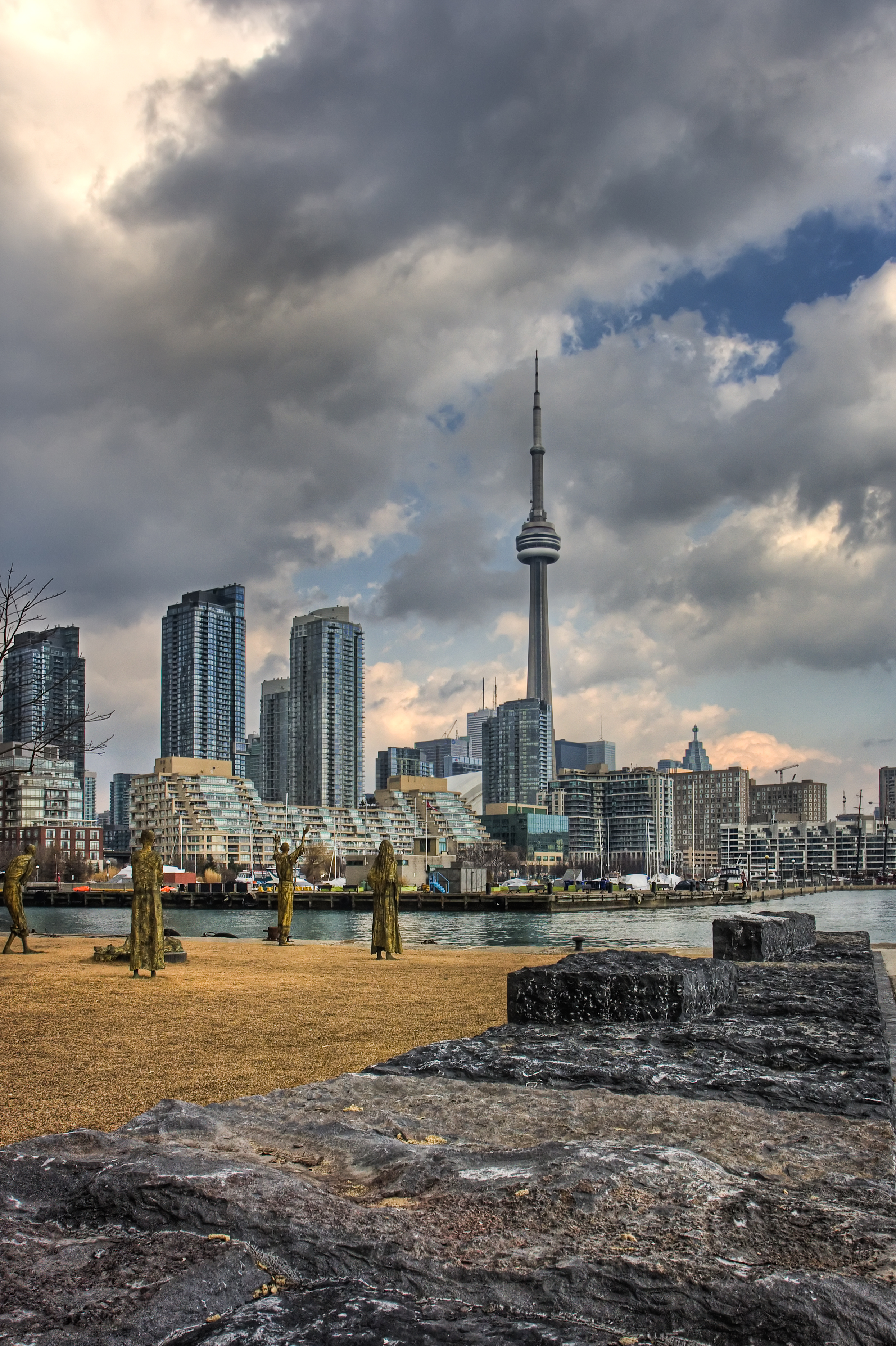 Another one of the Toronto skyline from Ireland Park I love this park, its nice and quiet most of the time.